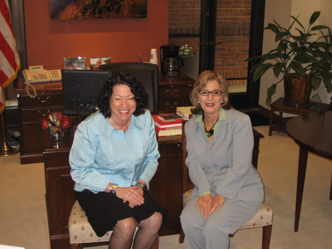 Senator Barbara Boxer (D-CA) meeting with Supreme Court nominee Sonia Sotomayor.